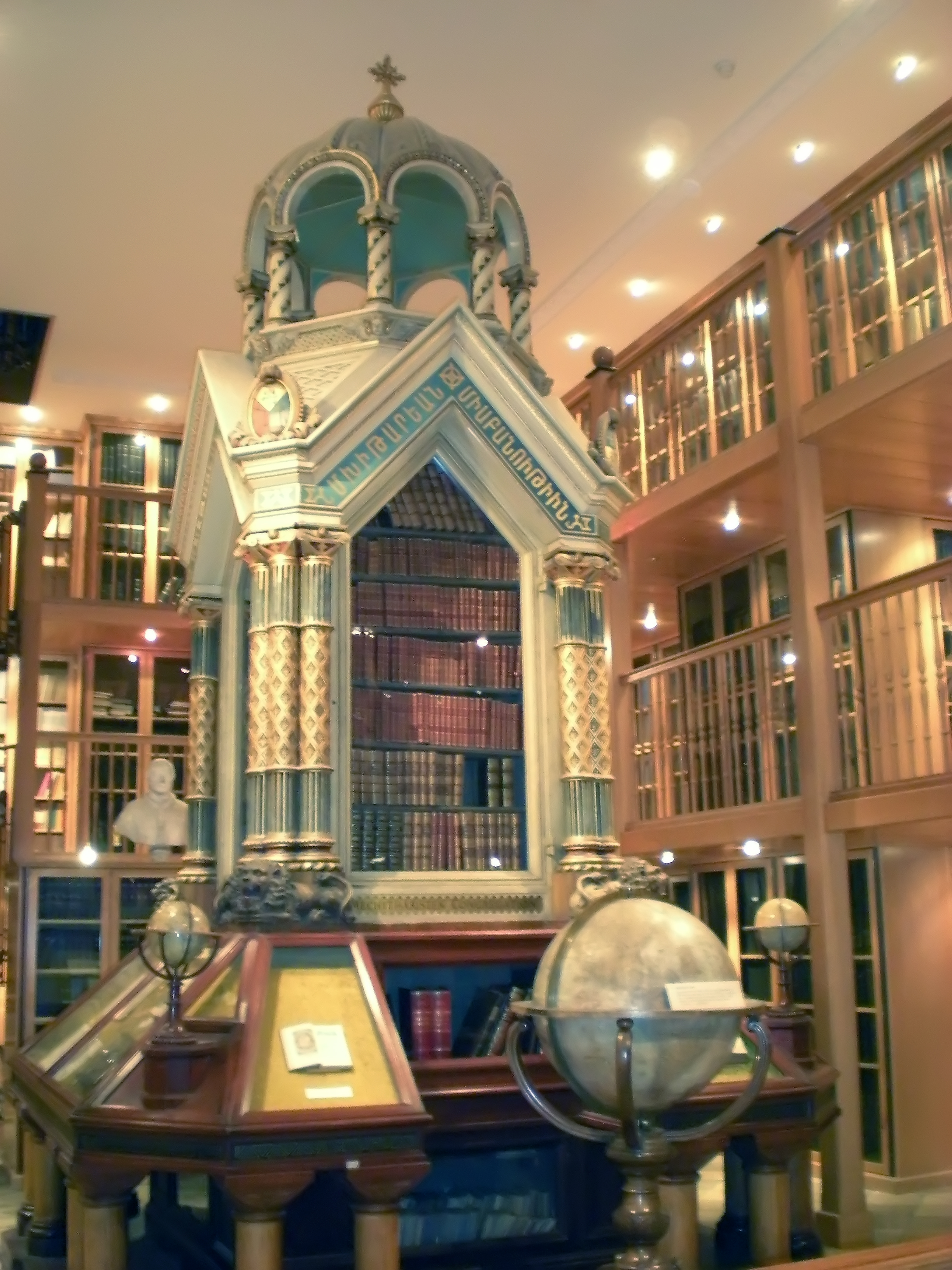 Library of the Mechitarist Monastery in Vienna's 7th district